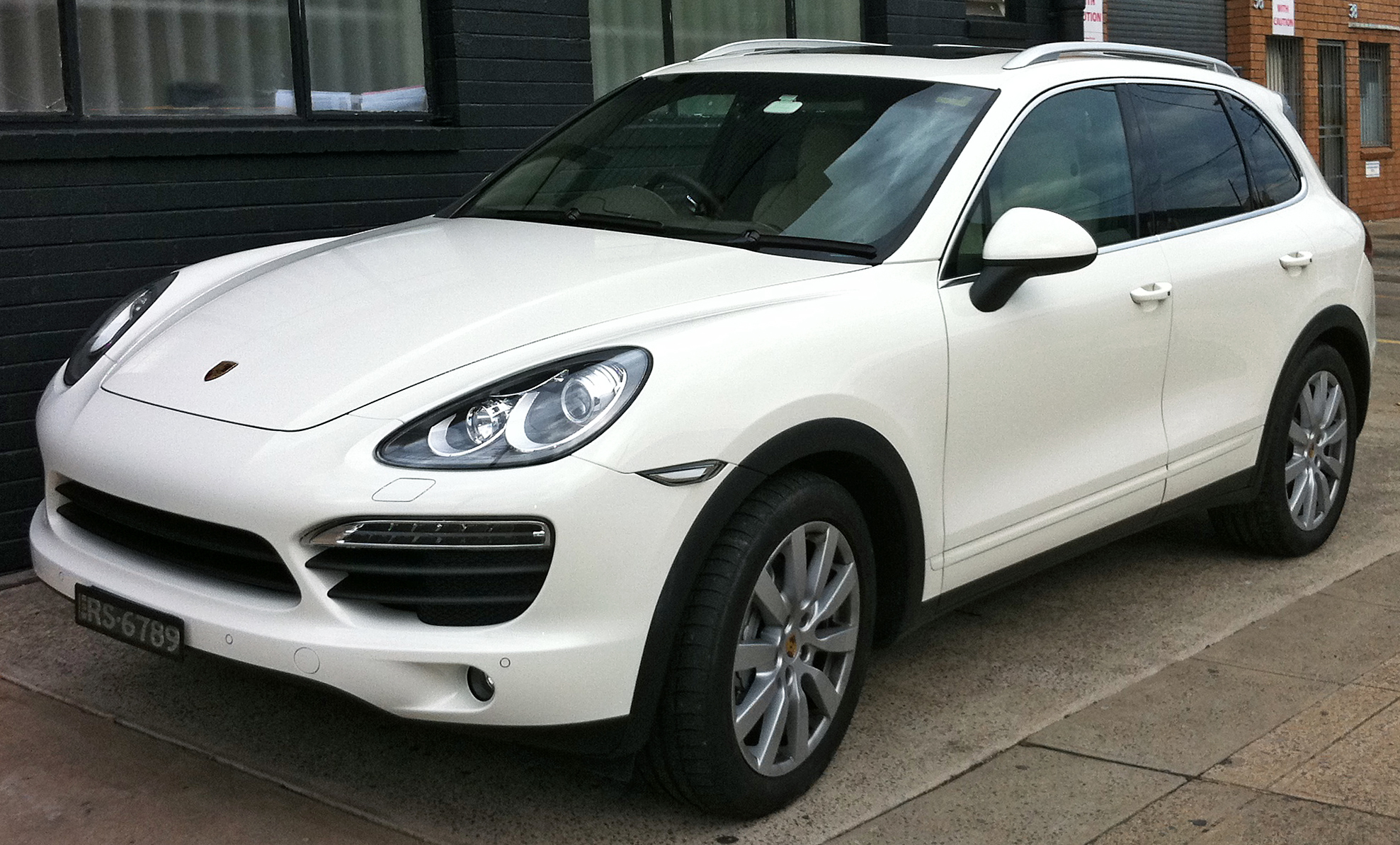 2010–2011 Porsche Cayenne (92A MY11) S wagon. Photographed in Marrickville, New South Wales, Australia.